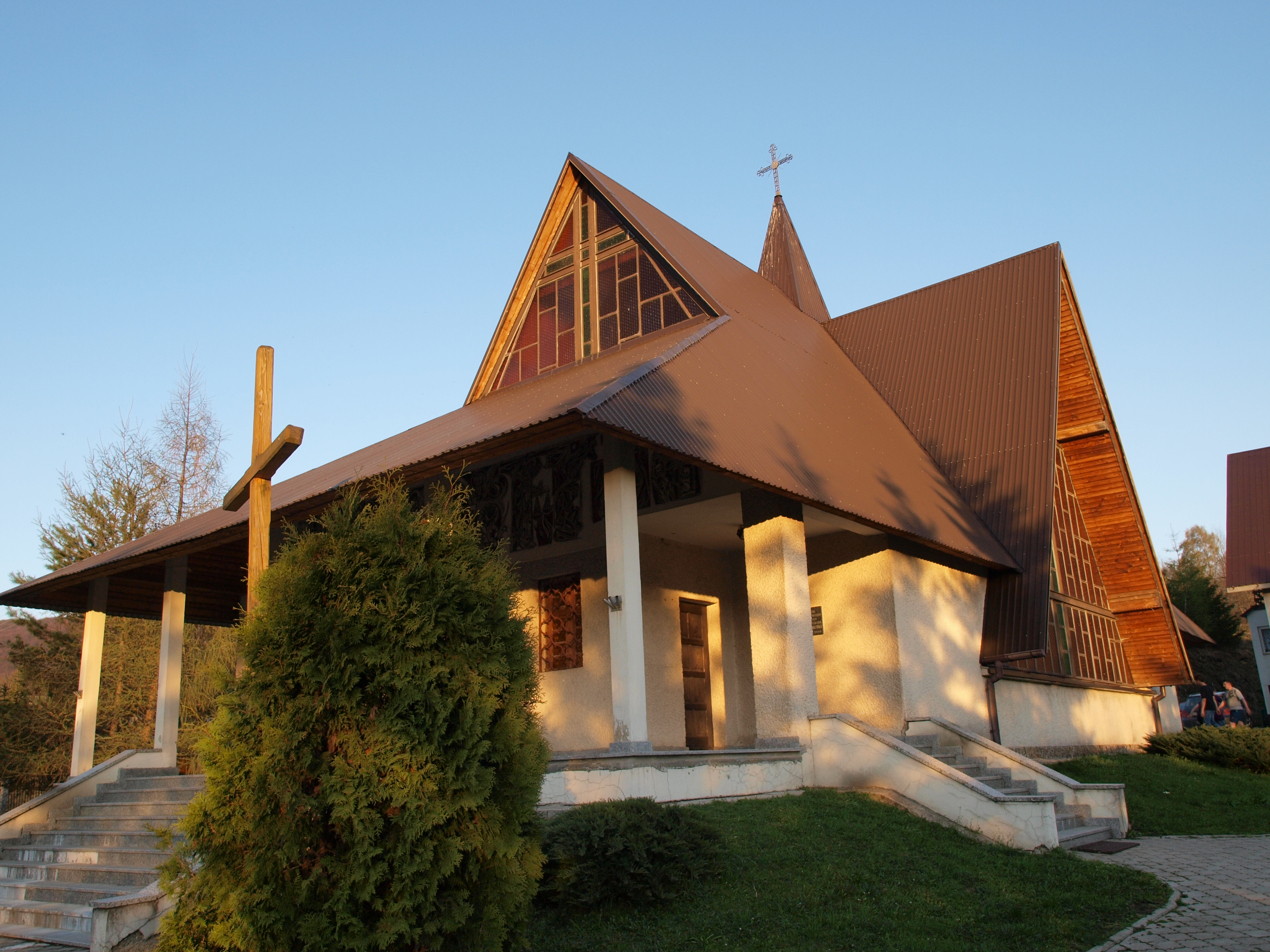 Roman-catholic church of St. Anne in Ustrzyki Górne, Poland, built in 1985.